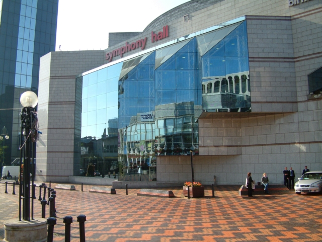 Symphony Hall, Birmingham The front of Symphony Hall from the Repertory Theatre